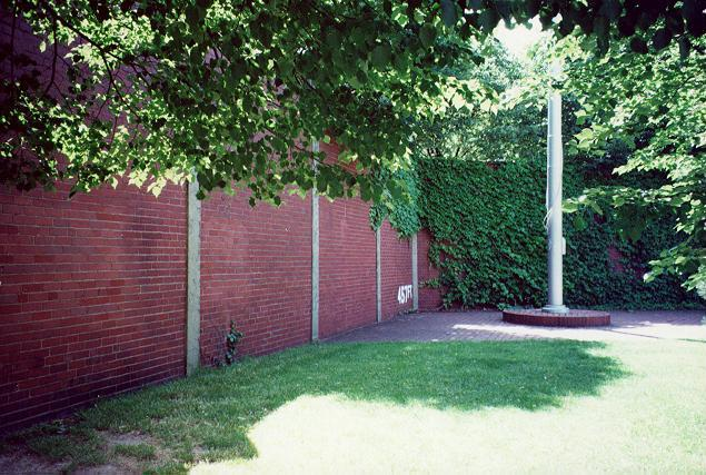 I took this photo of the Forbes Field flagpole on 6/6/1993. Wahkeenah 00:11, 6 May 2005 (UTC)